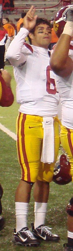 Quarterback Mark Sanchez celebrates a USC victory over Nebraska. He is making the traditional USC Trojan "V" for victory hand sign.